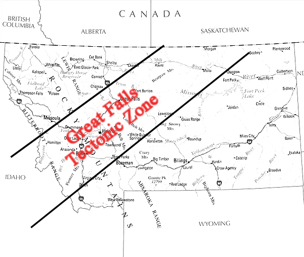 Map of Montana, in black and white, with Great Falls Tectonic Zone marked and captioned. Location of tectonic zone per: Thieben, Scott E. and Spry, Paul G. "The Geology and Geochemistry of Cretaceous-Tertiary Alkaline Igneous Rock-Related Gold-Silver Telluride Deposits of Montana, USA." In Mineral Deposits: From Their Origin to Their Environmental Impacts: Proceedings of the Third Biennial SGA Meeting, Prague, Czech Republic, 28-31 August 1995. Vol. 3. Jan Pašava and Bohdan Kříbek, eds. Florence, Ky.: Taylor & Francis, 1995. ISBN 905410550X